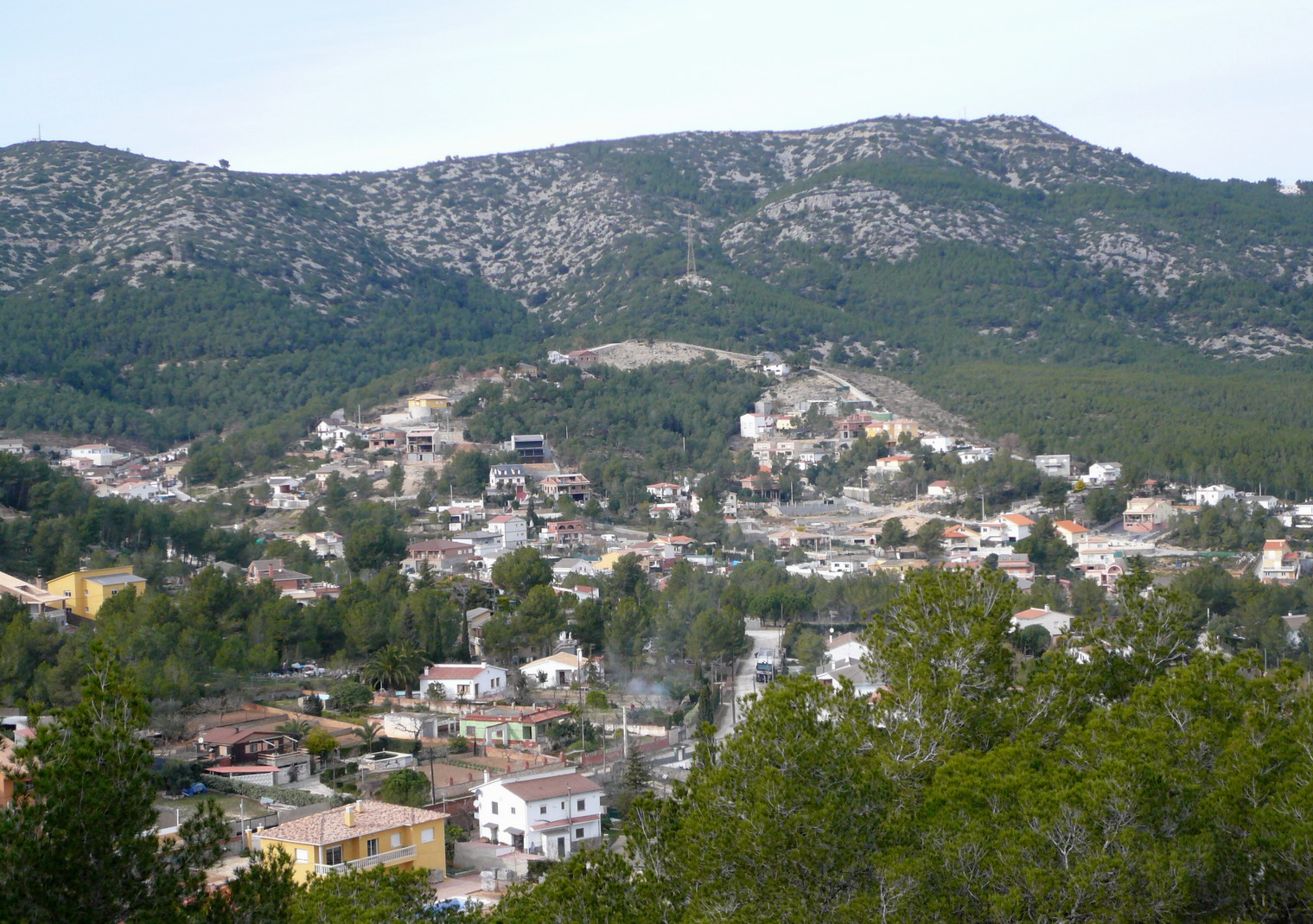 Urbanització les Palmeres, in Canyelles, Garraf, Catalonia